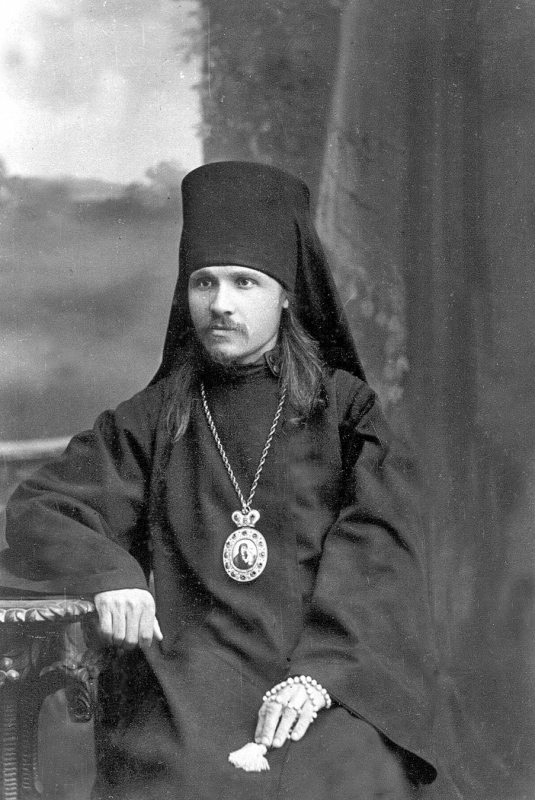 Bishop Thaddeus (Uspensky) of Vladimir Volynsky